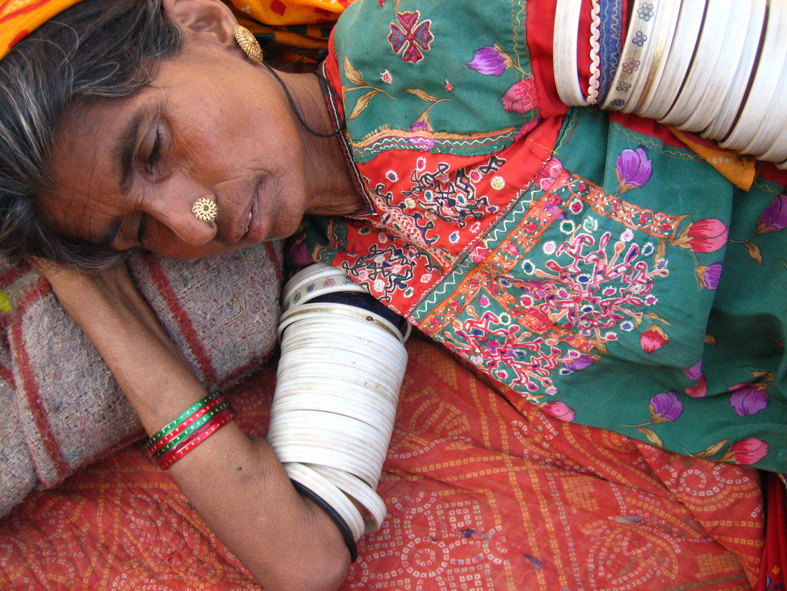 A Koli Wada woman sleeping in Nirona village, north of Bhuj.The bracelets she is wearing above her elbows are typically adorned after marriage.